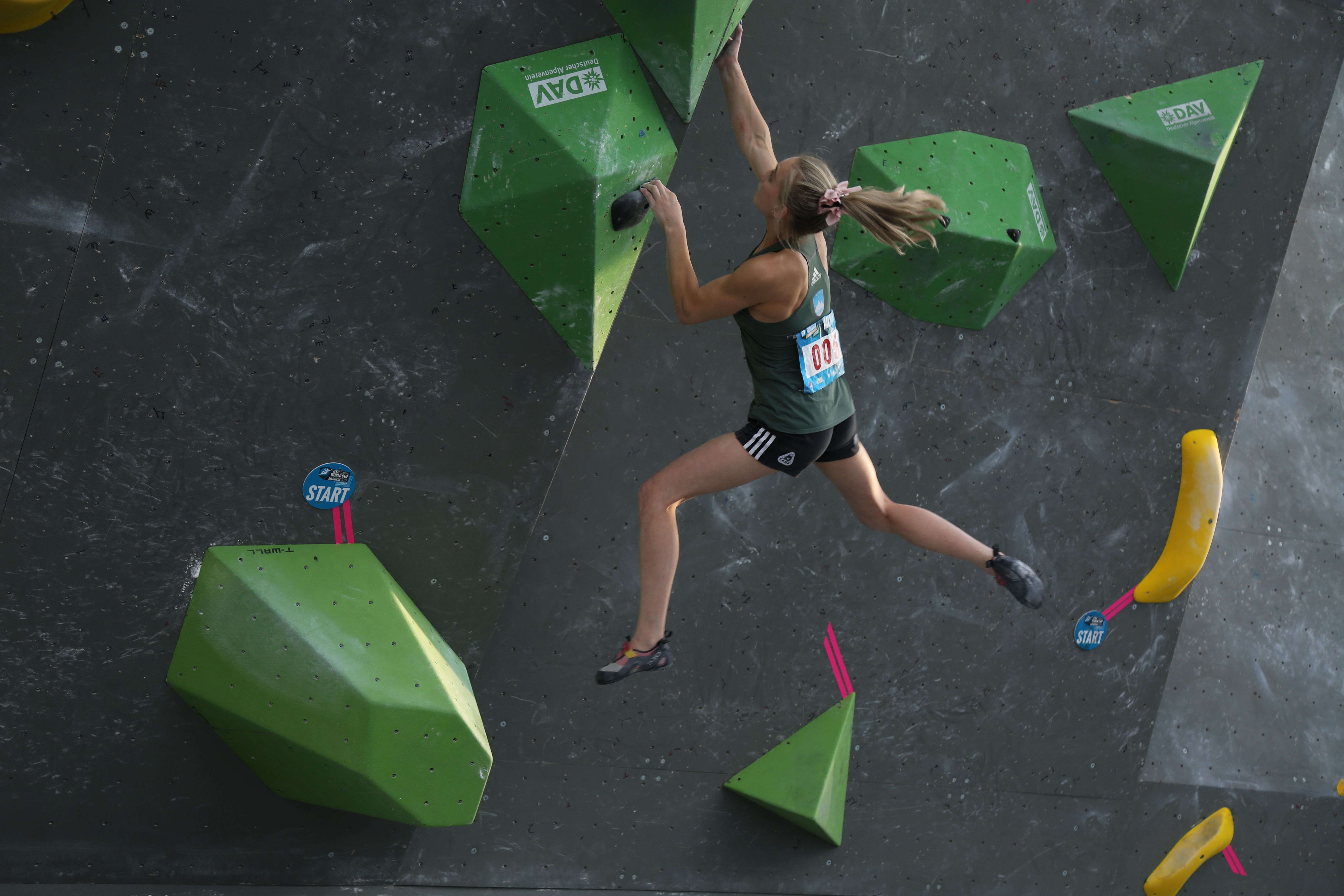 Janja Garnbret SLO at the Boulder Worldcup 2017 in Munich, Germany.